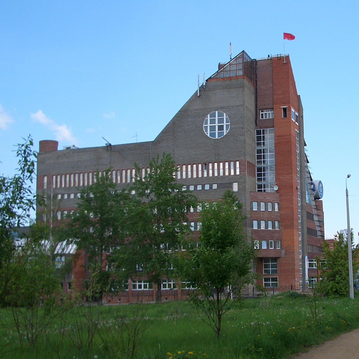 World Sambo Academy (Kstovo, Nizhny Novgorod Oblast